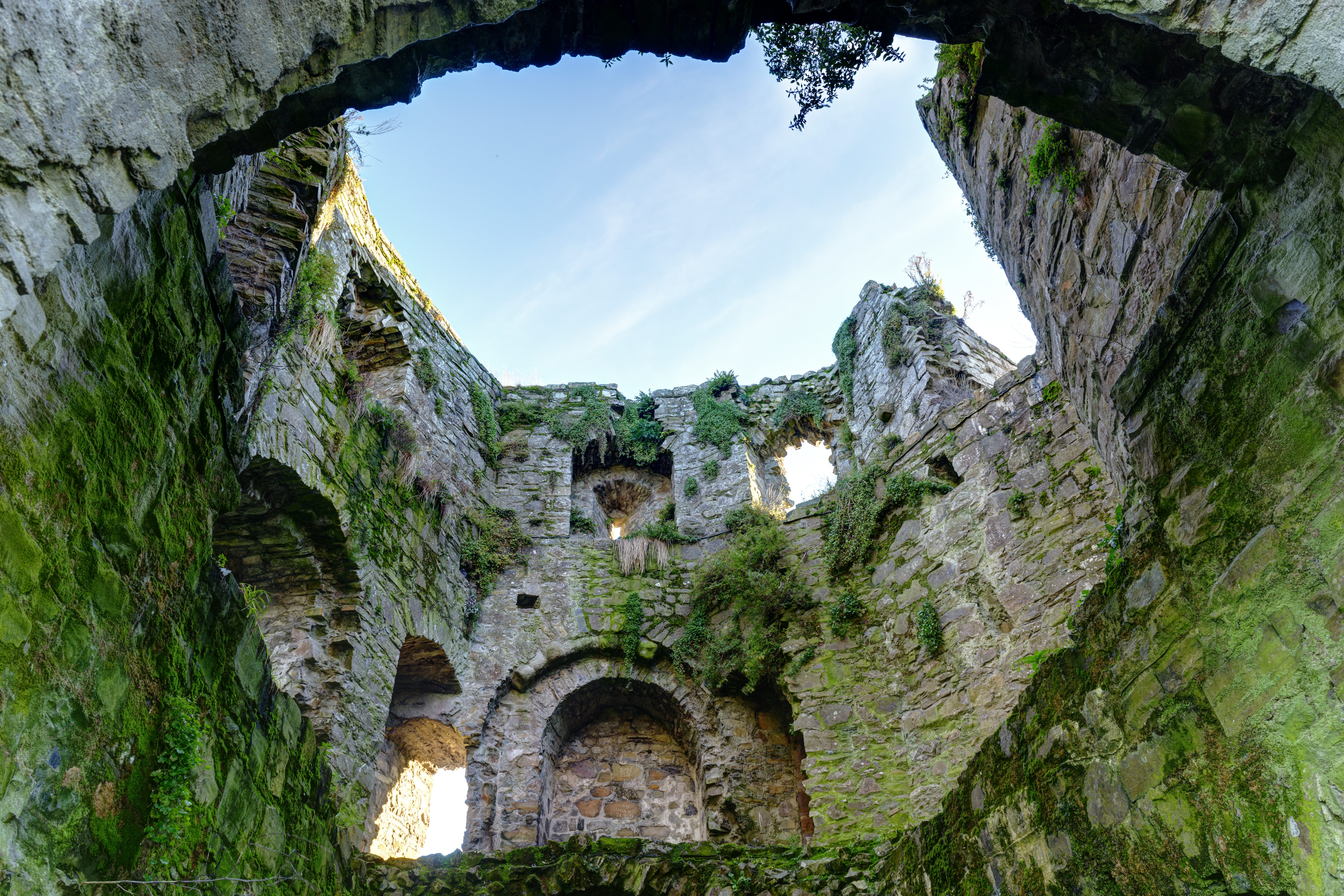 Trim Castle in Ireland